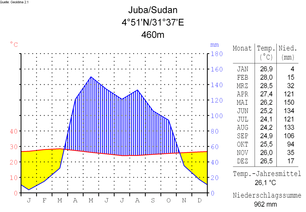 climate chart in the format by Walter and Lieth, metric, °Celsisus and millimeters, made with Geoklima 2.1